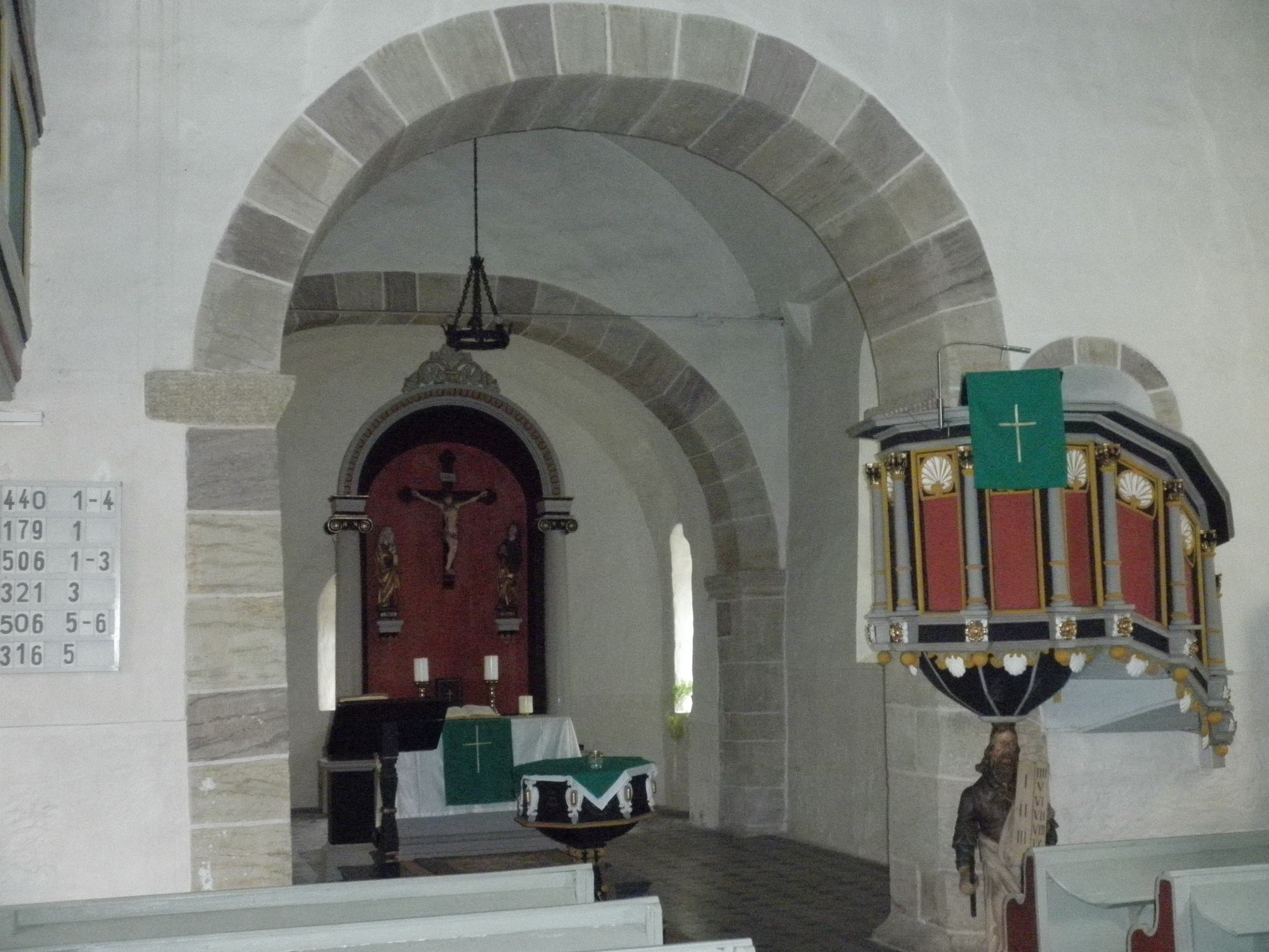 Inside the Church in Griesheim (Thuringia)